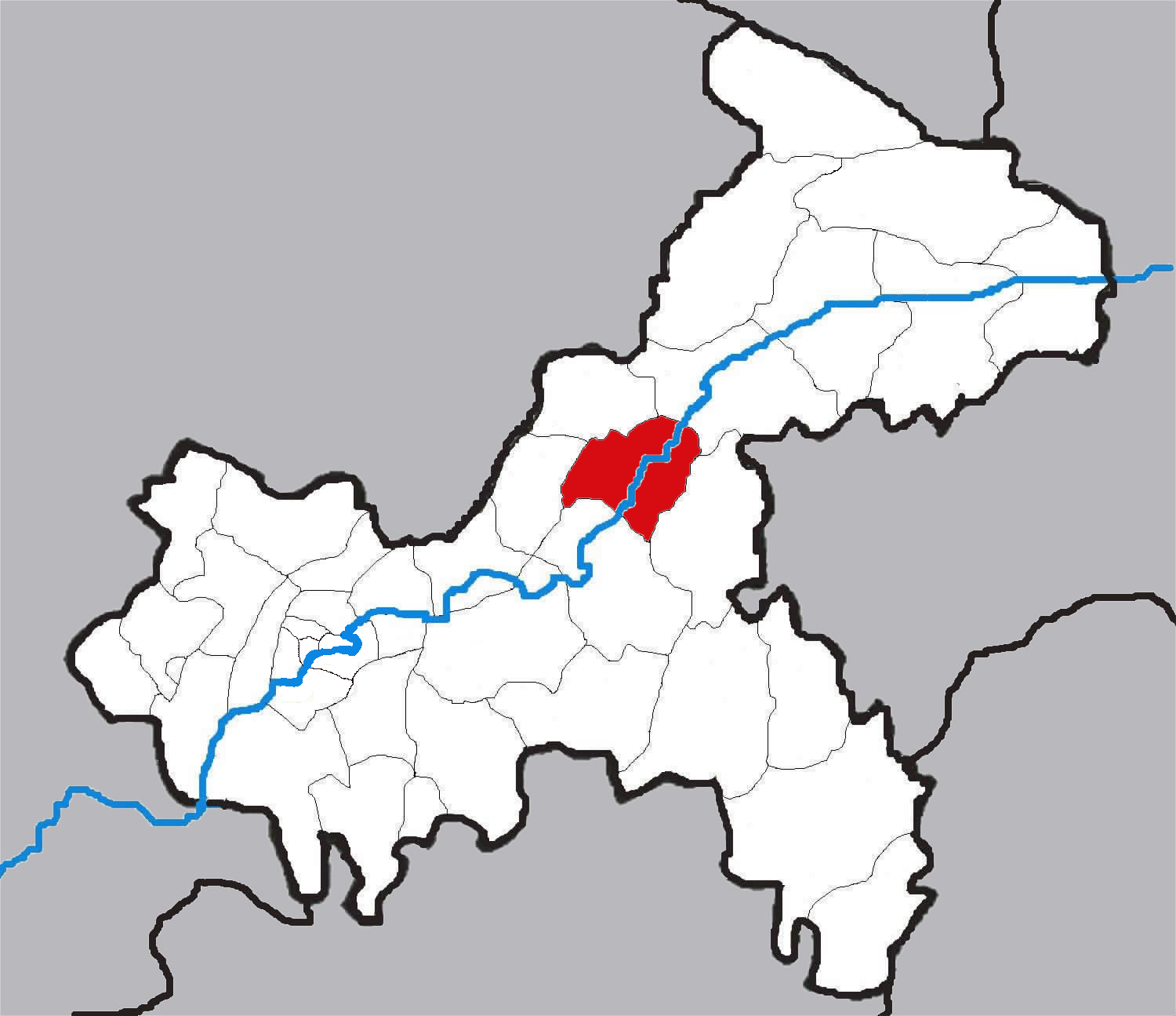 Administration maps of Chongqing, China